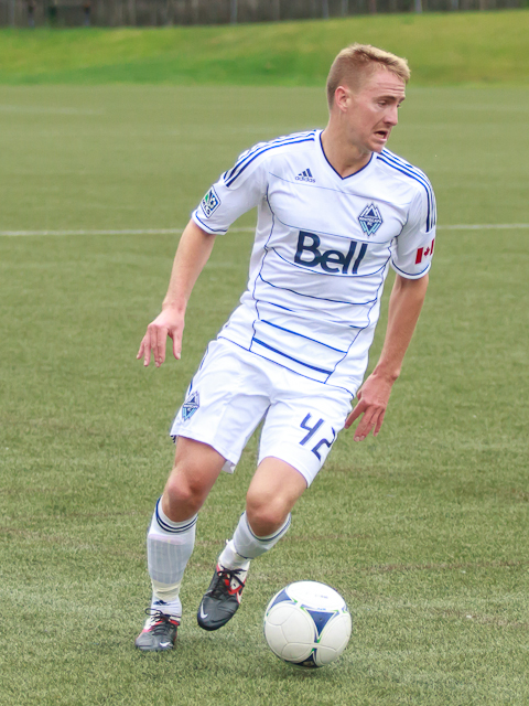 Anton Peterlin, Vancouver Whitecaps FC Reserves v Los Angeles Galaxy Reserves, 12 June 2012